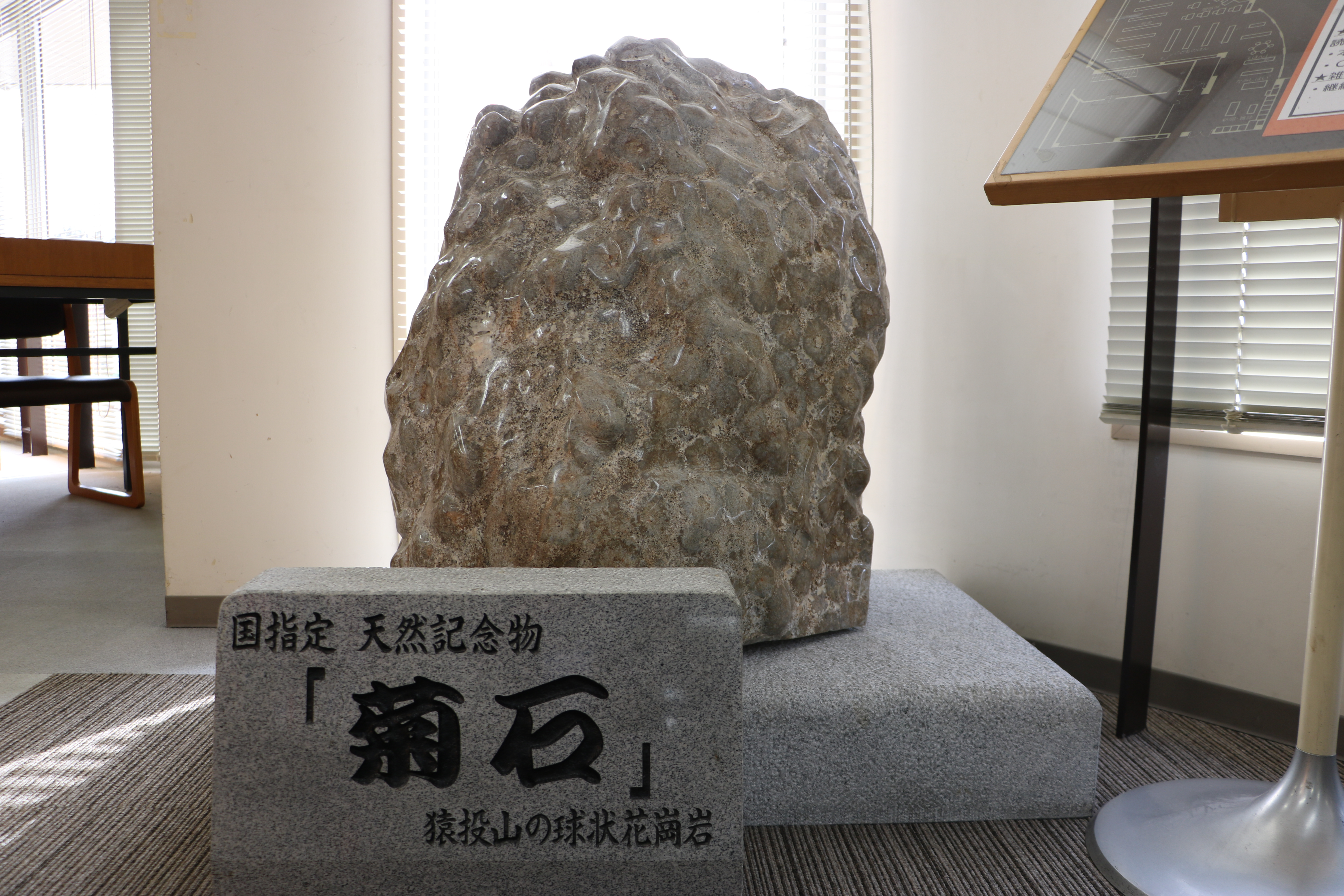 Granito Orbicular rock on Isato district community center library